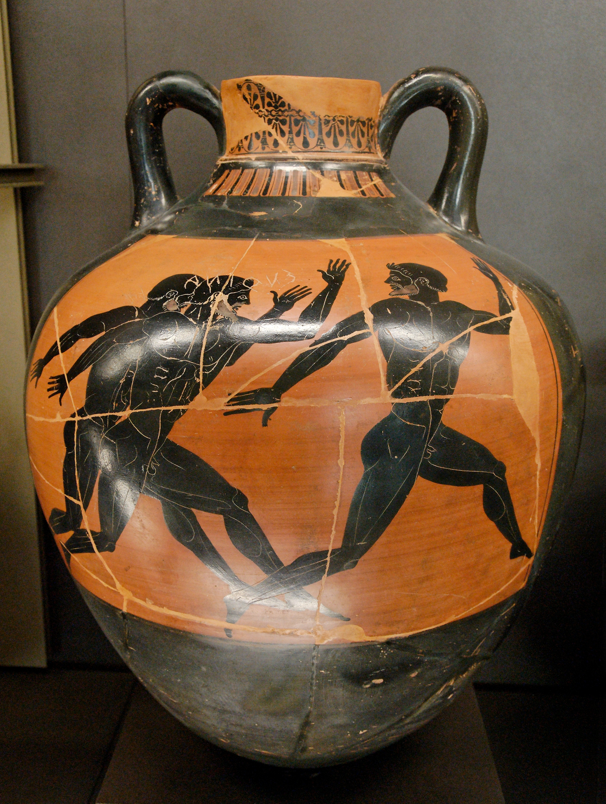 Athletes running. Side B from a black-figured Panathenaic amphora, ca. 500 BC.